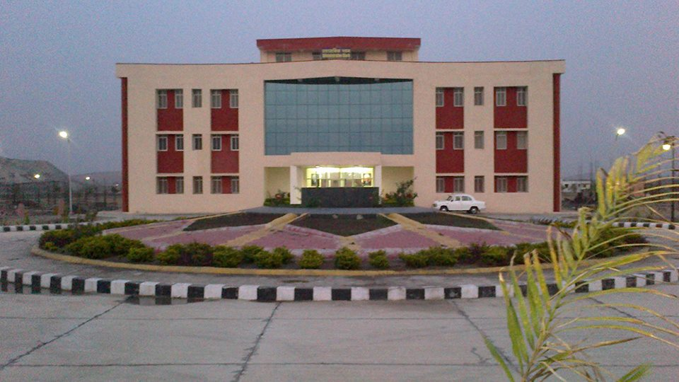 Academic Block Of GECJ